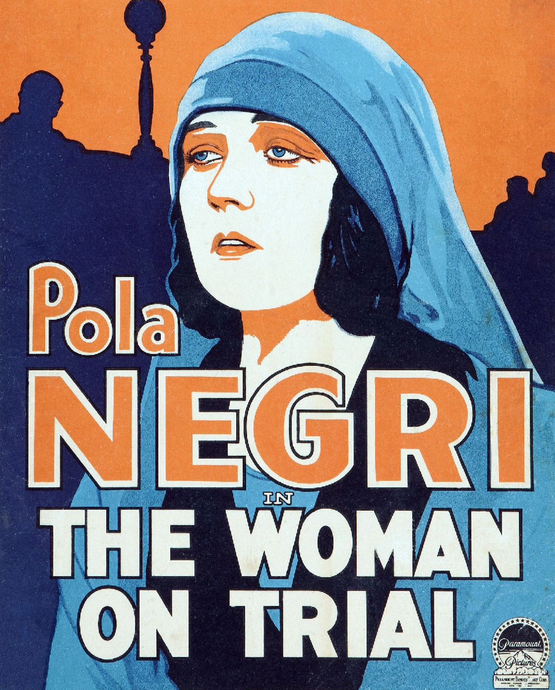 Window poster for the 1927 film The Woman on Trial.